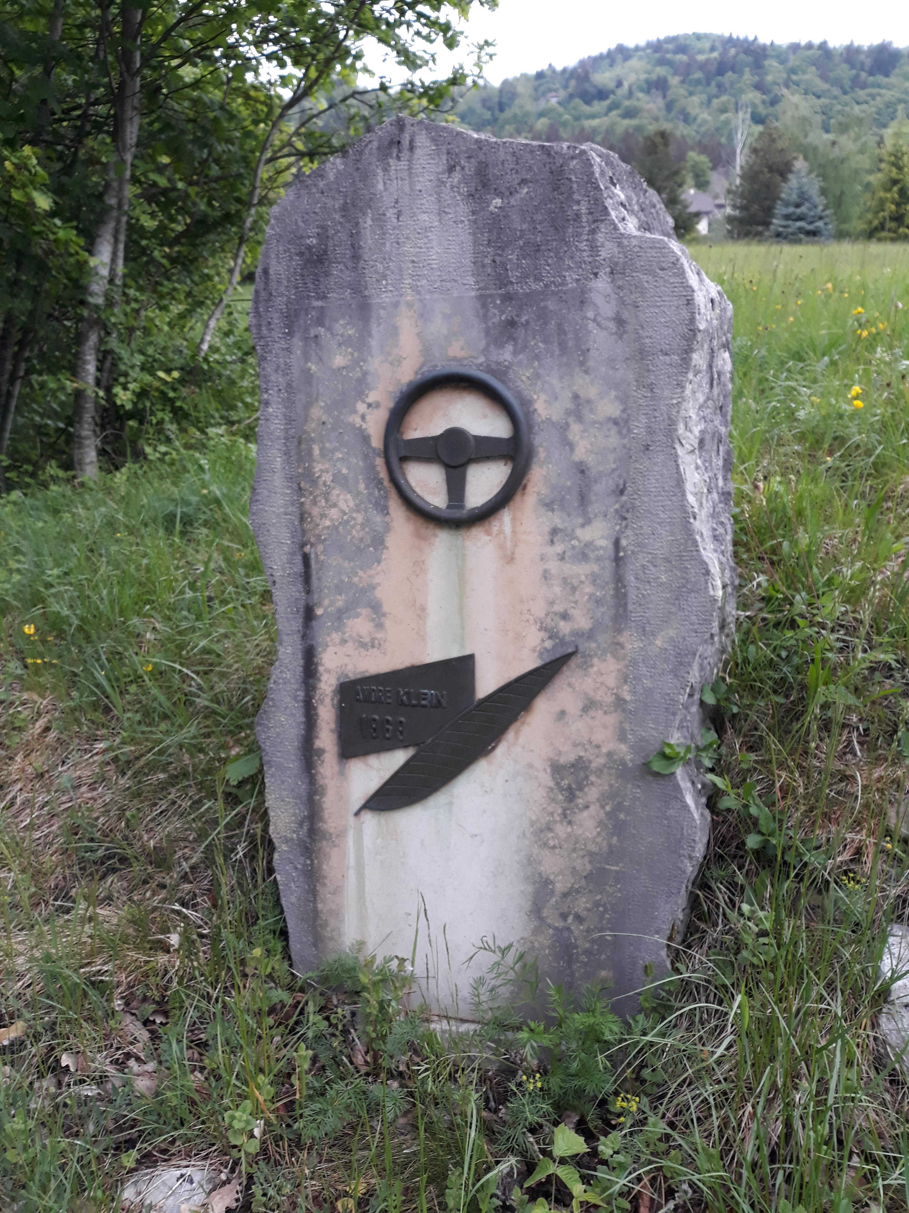 Cenotaph to Andre KLEIN ( x - 1969) in Gex (Ain, France) on the D1005 road to the Faucille pass, where he had an accident on September 7th, 1969.